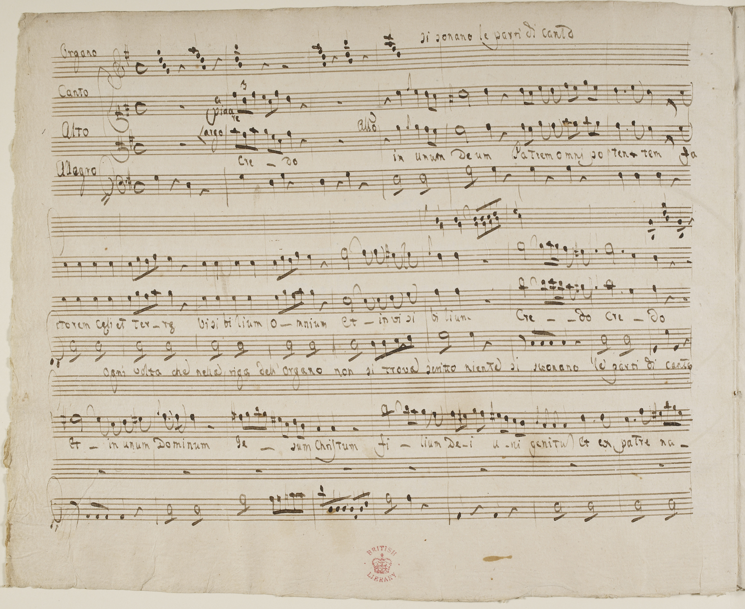 Credo. In the composer's hand.